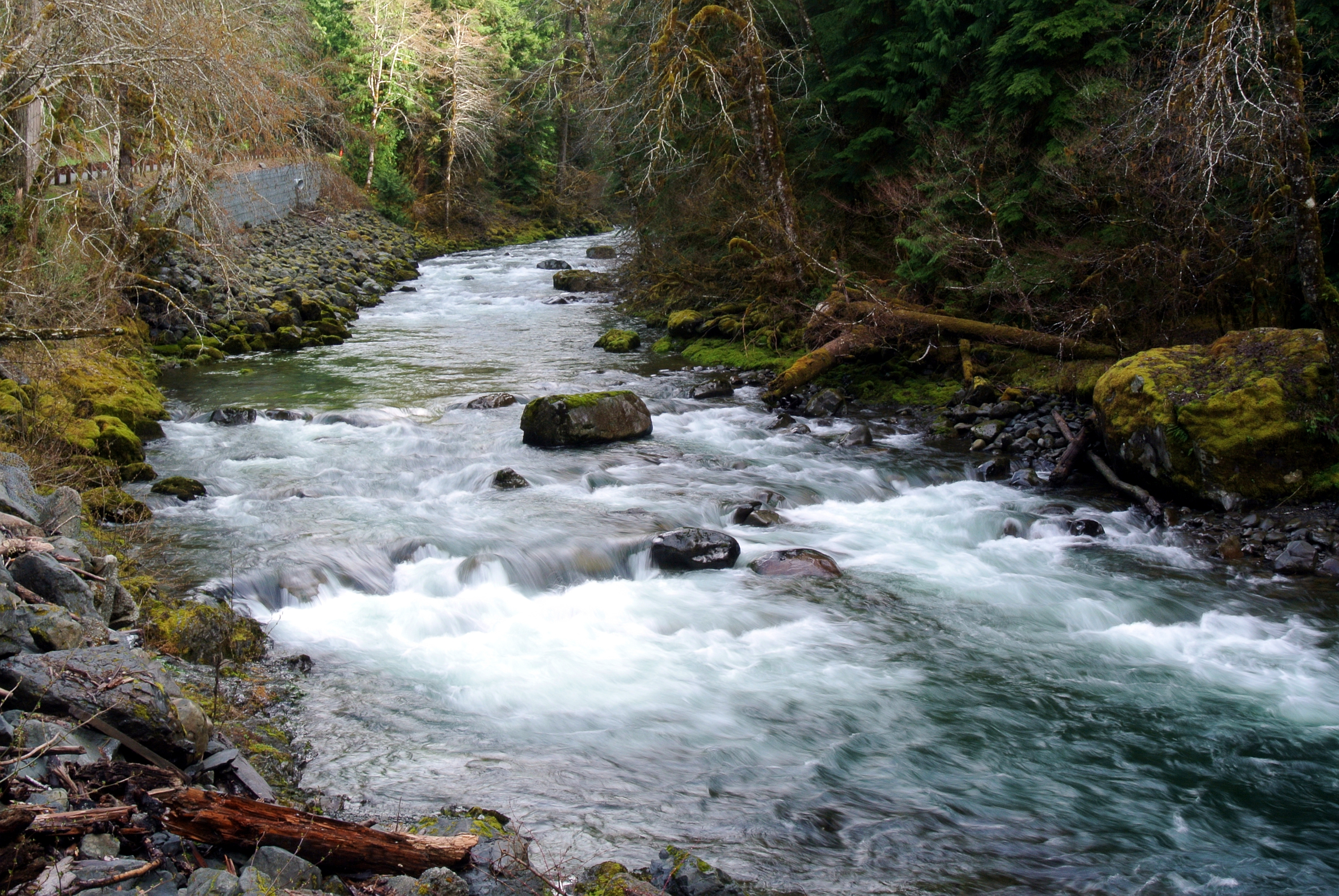 Sol Duc River in the Olympic National Park. Nikon 1 V1 + 1 Nikkor VR 10-30mm f/3.5-5.6